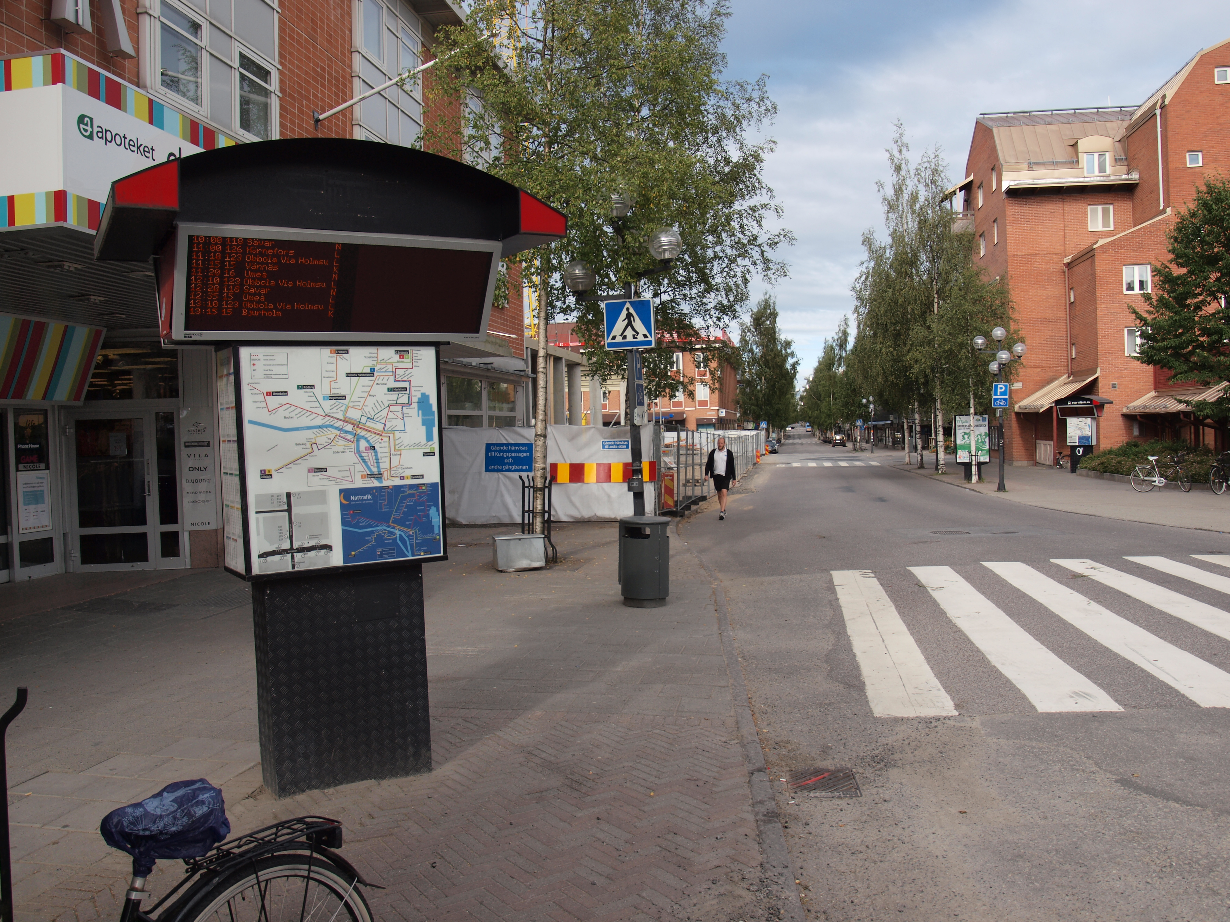 A bus stop in central Umeå, northern Sweden.